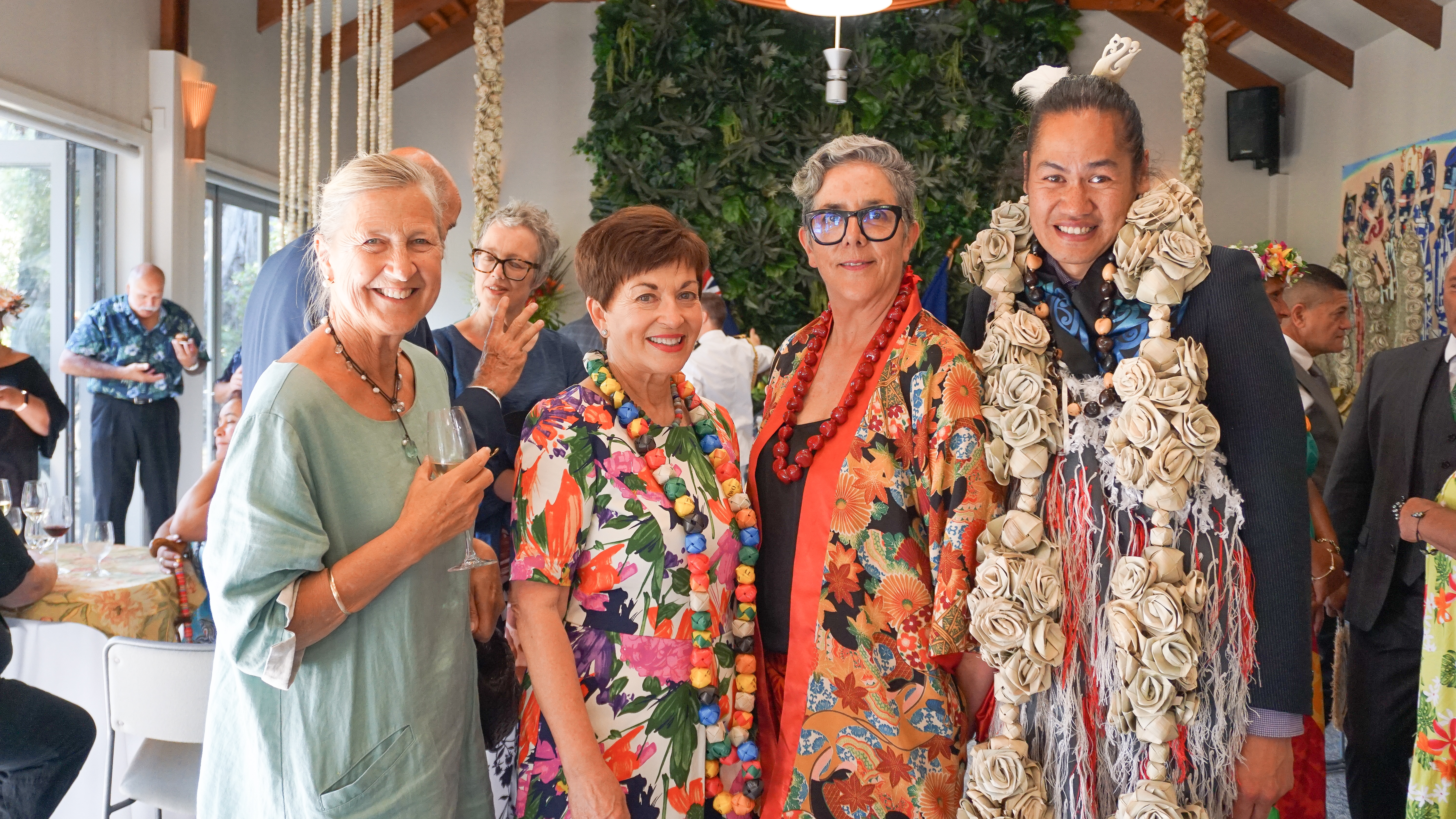 Reception in Auckland for Pacifica Mamas - Matairangi Mahi Toi, on 27 January 2020. Left to right: Sue Elliot, Patsy Reddy, Huhana Smith, and Kurt Komene.